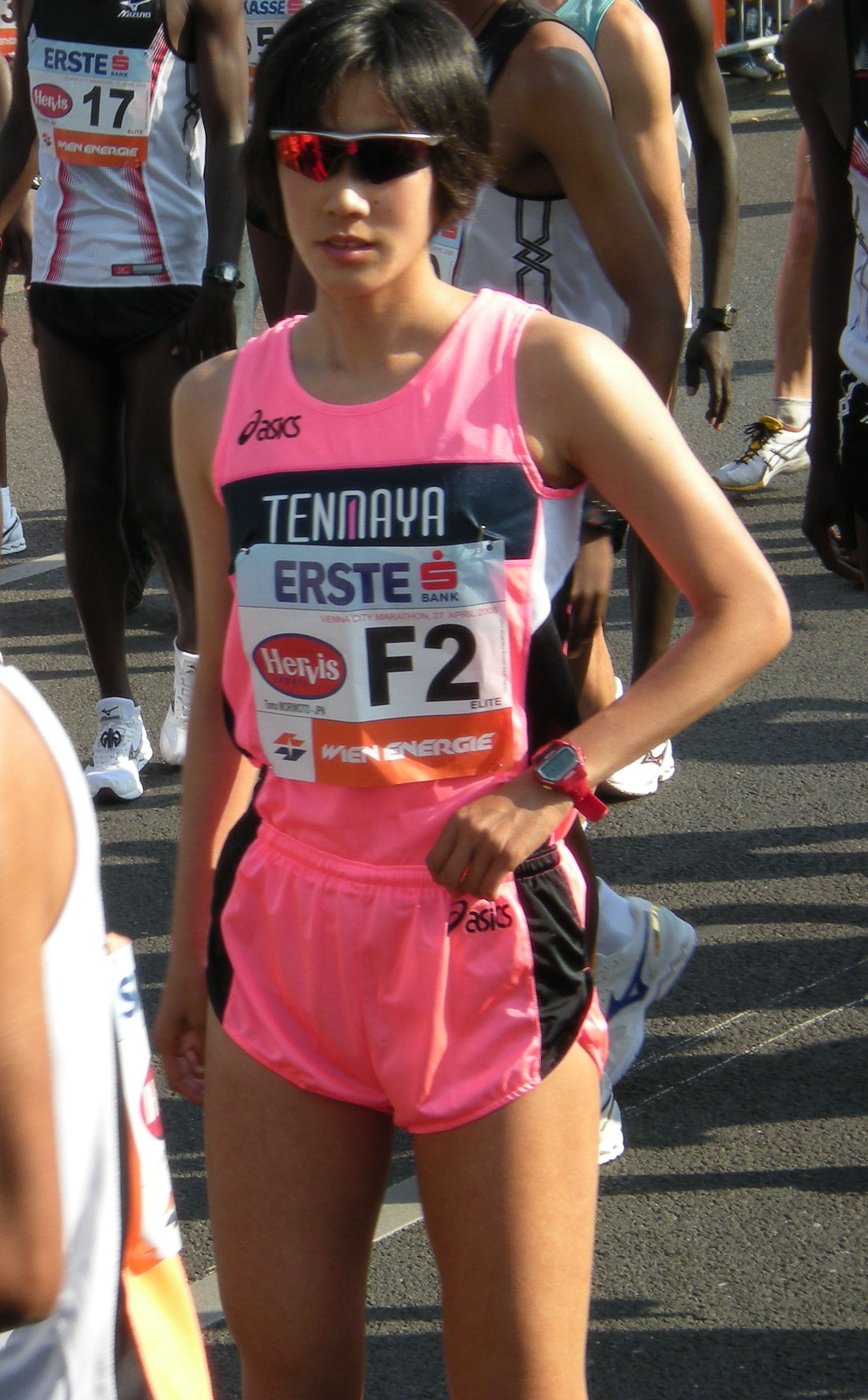 Japanese Tomo Morimoto some 4 minutes before starting Vienna City Marathon. She won second women, or 18th over all, in 02:29:01 after Luminiţa Talpos (ROM). Notes: My camera's time setting was about 1h4min late to local time, which means, this photograph was taken at app. 08:56 local time, i.e. 4 min before starting. Similar applies to all other photographs of same series [w.]. On ranking, see official